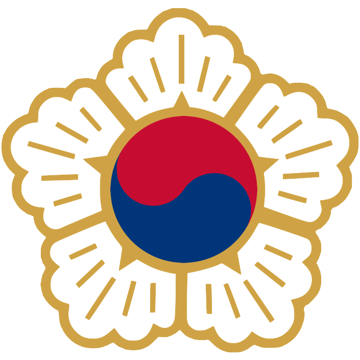 Emblem of the National Conference for Unification, the electoral college created by South Korean president Park Chung-hee to get elected during the elections of 1972 and 1978 under the dispositions of the Yushin Constitution.